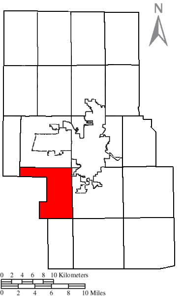 Made by the US Census and altered by myself to highlight the township